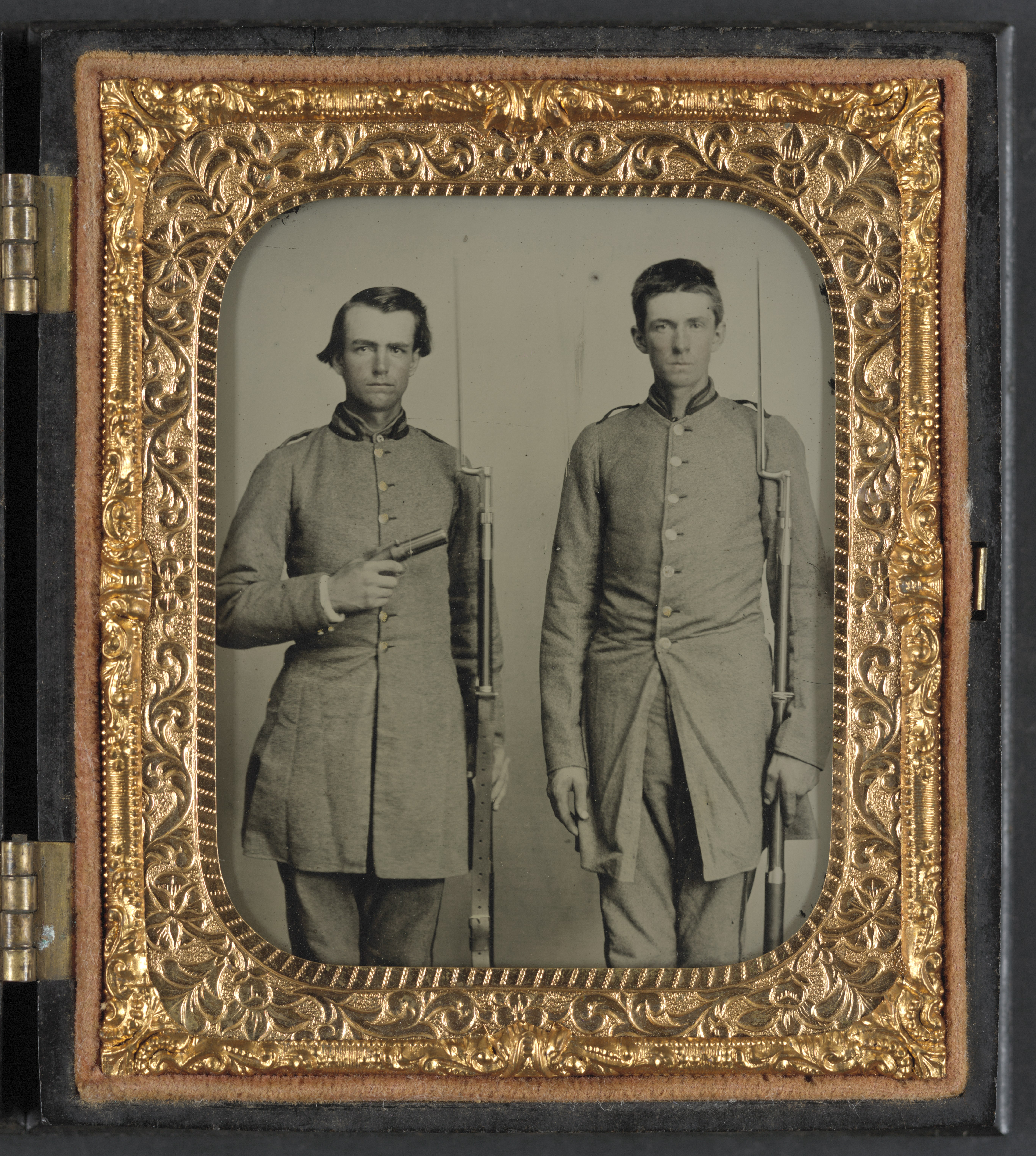 Title: Two unidentified soldiers from Tennessee in Confederate uniforms with rifles and pepperbox pistol Abstract/medium: 1 photograph : sixth-plate ambrotype, hand-colored ; 9.4 x 8.3 cm (case)